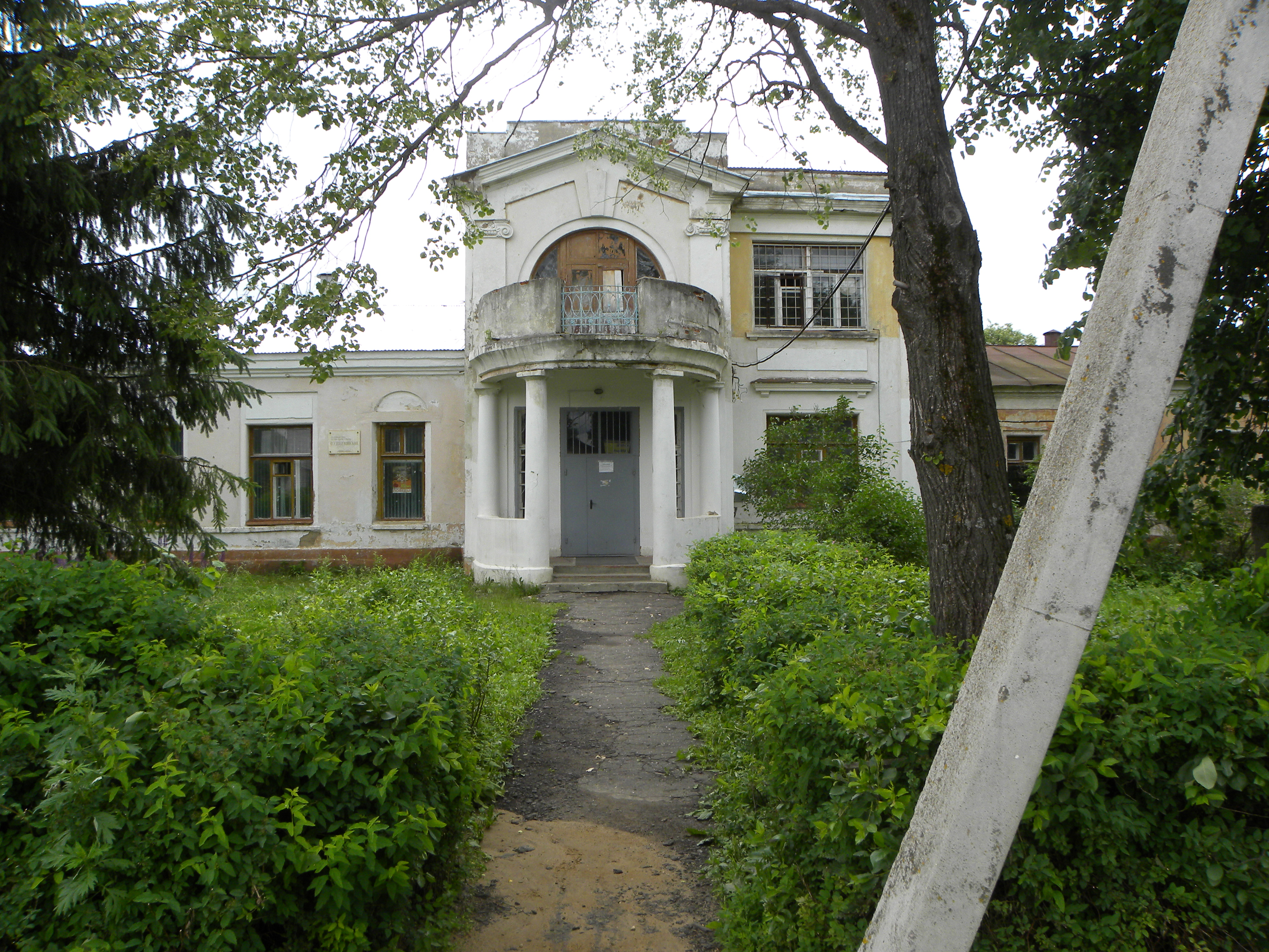 Manor in the village Lyubanovo, Naro-Fominsk district, Moscow region.